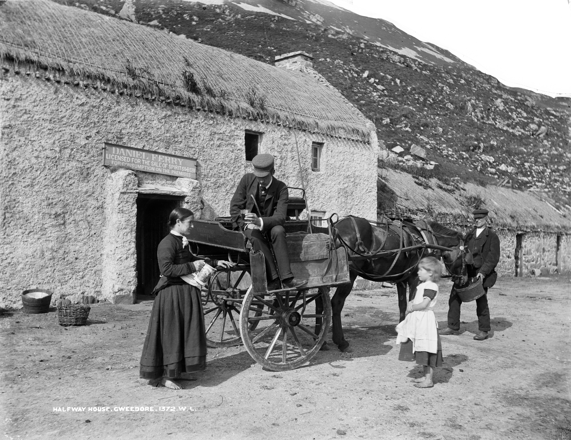 Even by the standards of the time this photograph is very posed, but I hope you will enjoy it nonetheless. And we may be able to find out something about Daniel Ferry while we're at it. Plus, if known colloquially as the Halfway House, where was it halfway between? NLI Ref.: L_ROY_01372